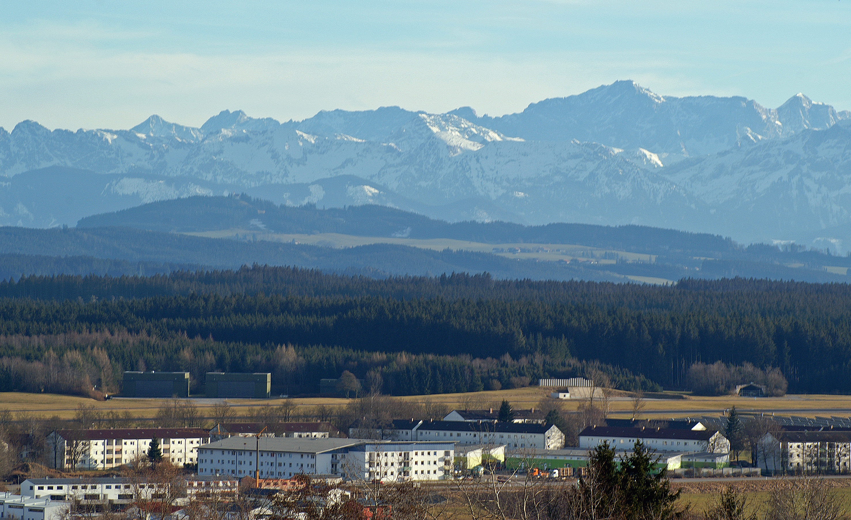 Fliegerhorst Kaufbeuren